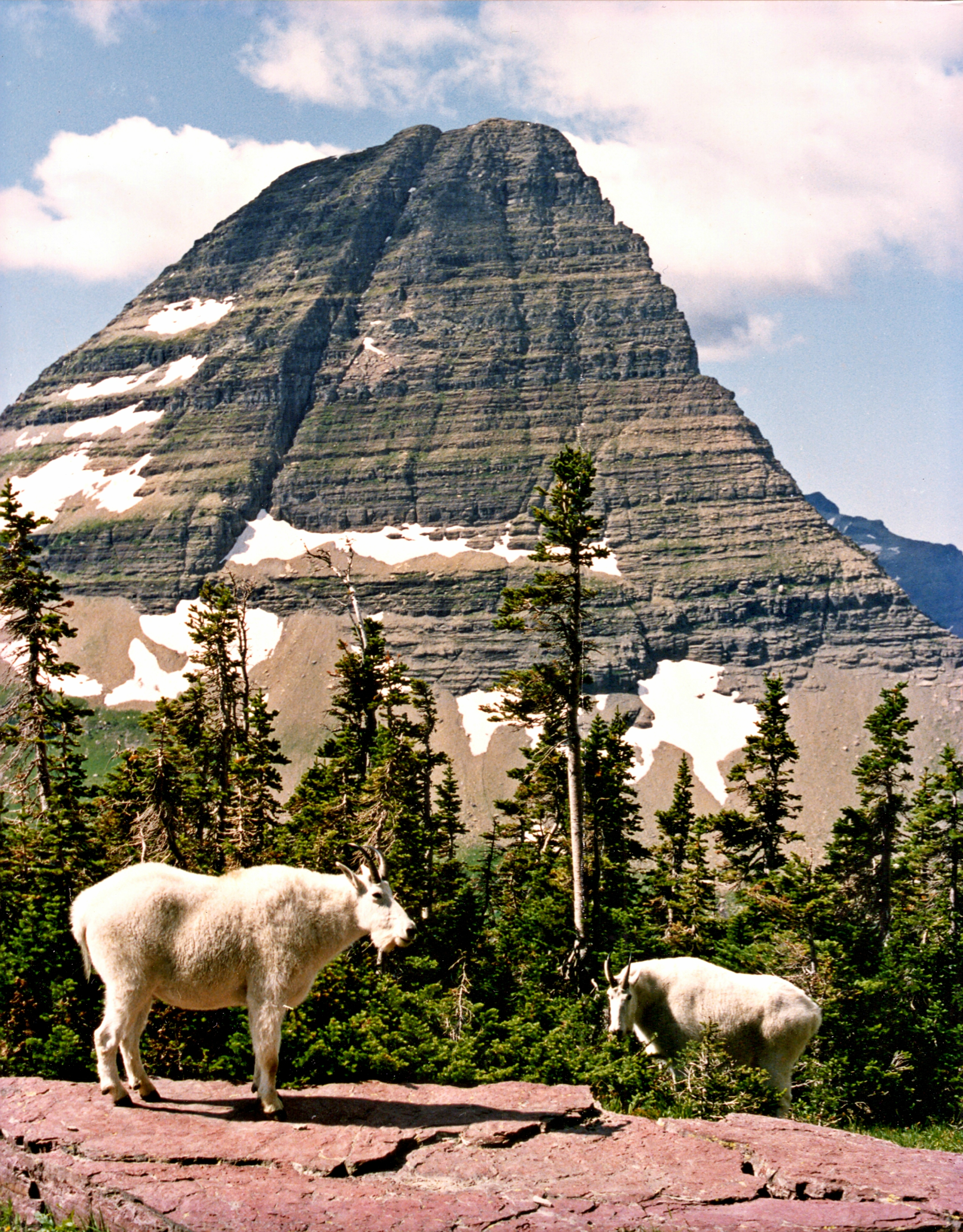 Bearhat Mountain and mountain goats seen from the Hidden lake overlook. Glacier National Park, Montana